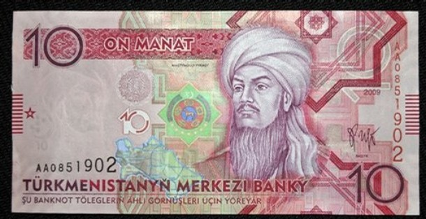 Magtymguly portraited on a new Turkmen currency.